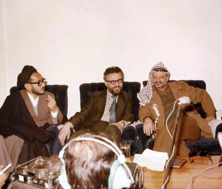 Yasser Arafat in Mashhad, with Ebrahim Yazdi and Abdul Karim Hashemi Nejad - February 1979